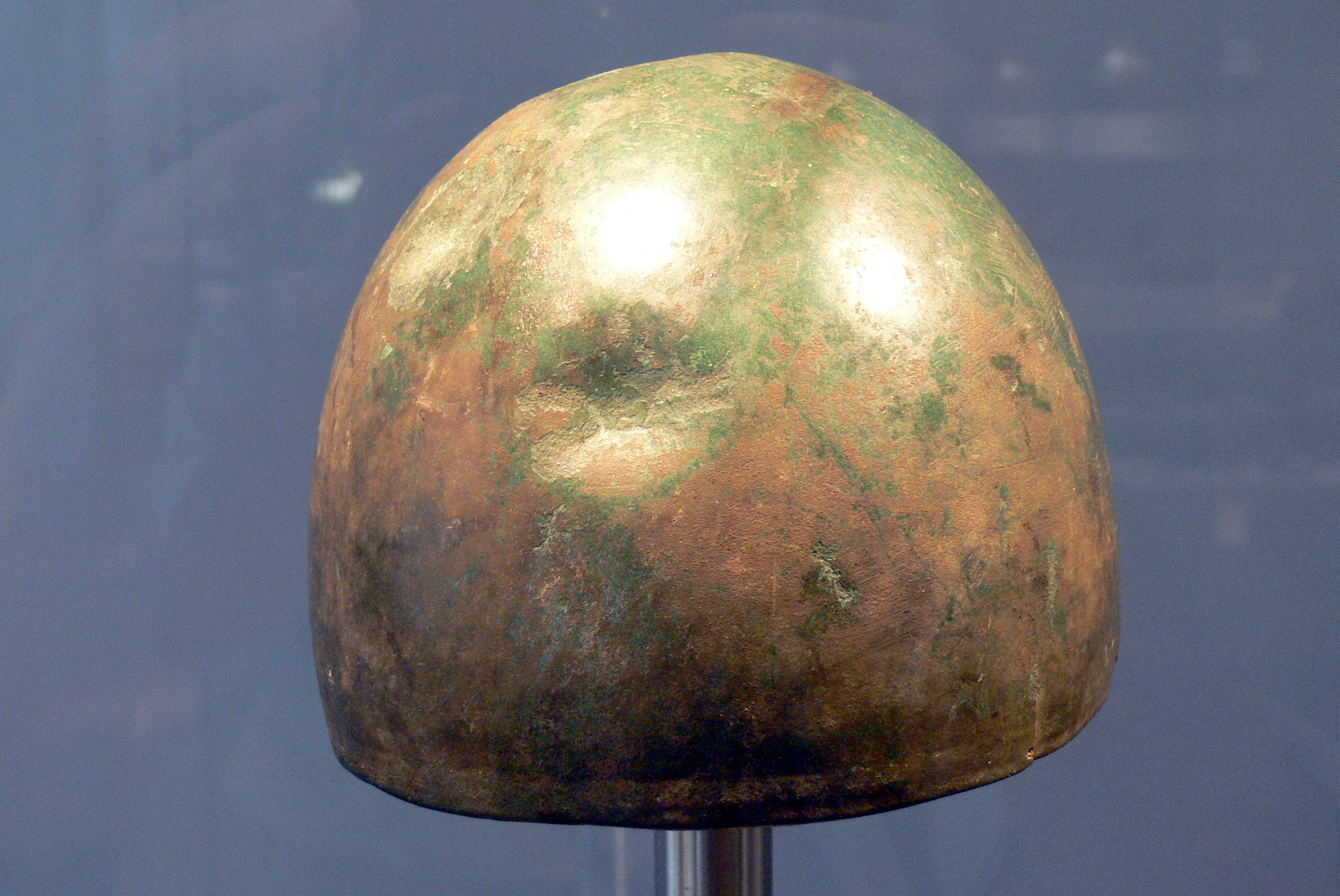 German National Museum ( Nuremberg / Germany ). Bronze scull-cap helmet, Urnfield culture, 12th century BC, from Thonberg ( Kronach / Bavaria ).